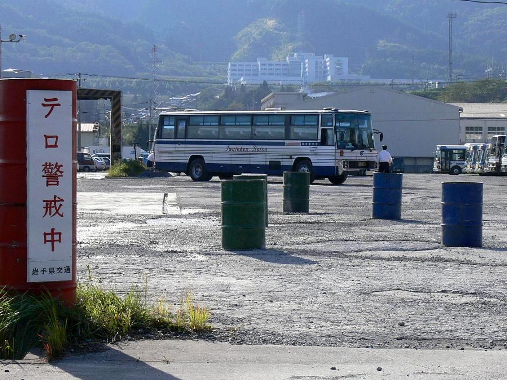 Iwateken Kotsu Ofunato Depot in Ofunato City, Iwate Prefecture, Japan